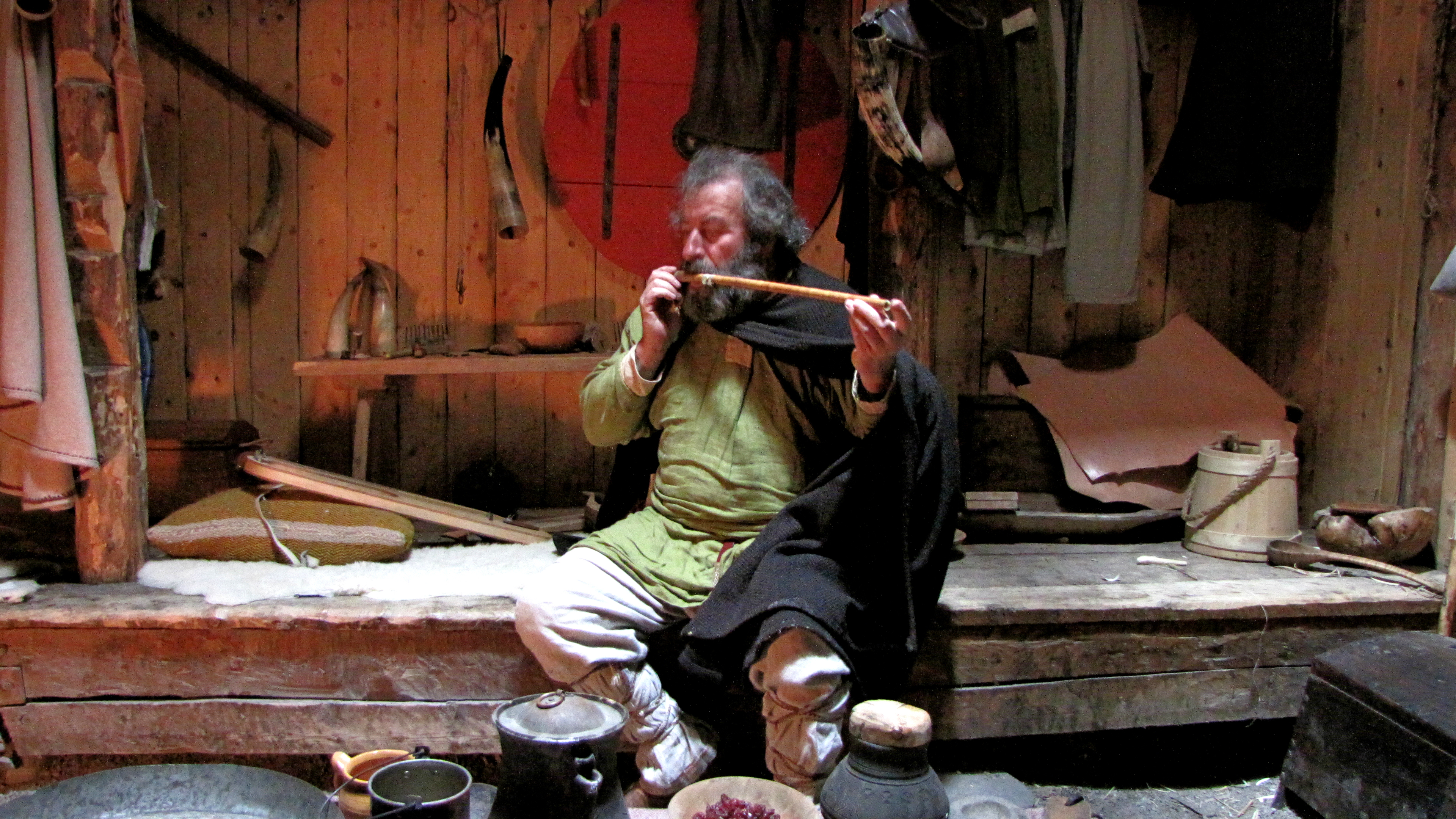 Inside Norse long house recreation, L'Anse aux Meadows, Newfoundland and Labrador, Canada